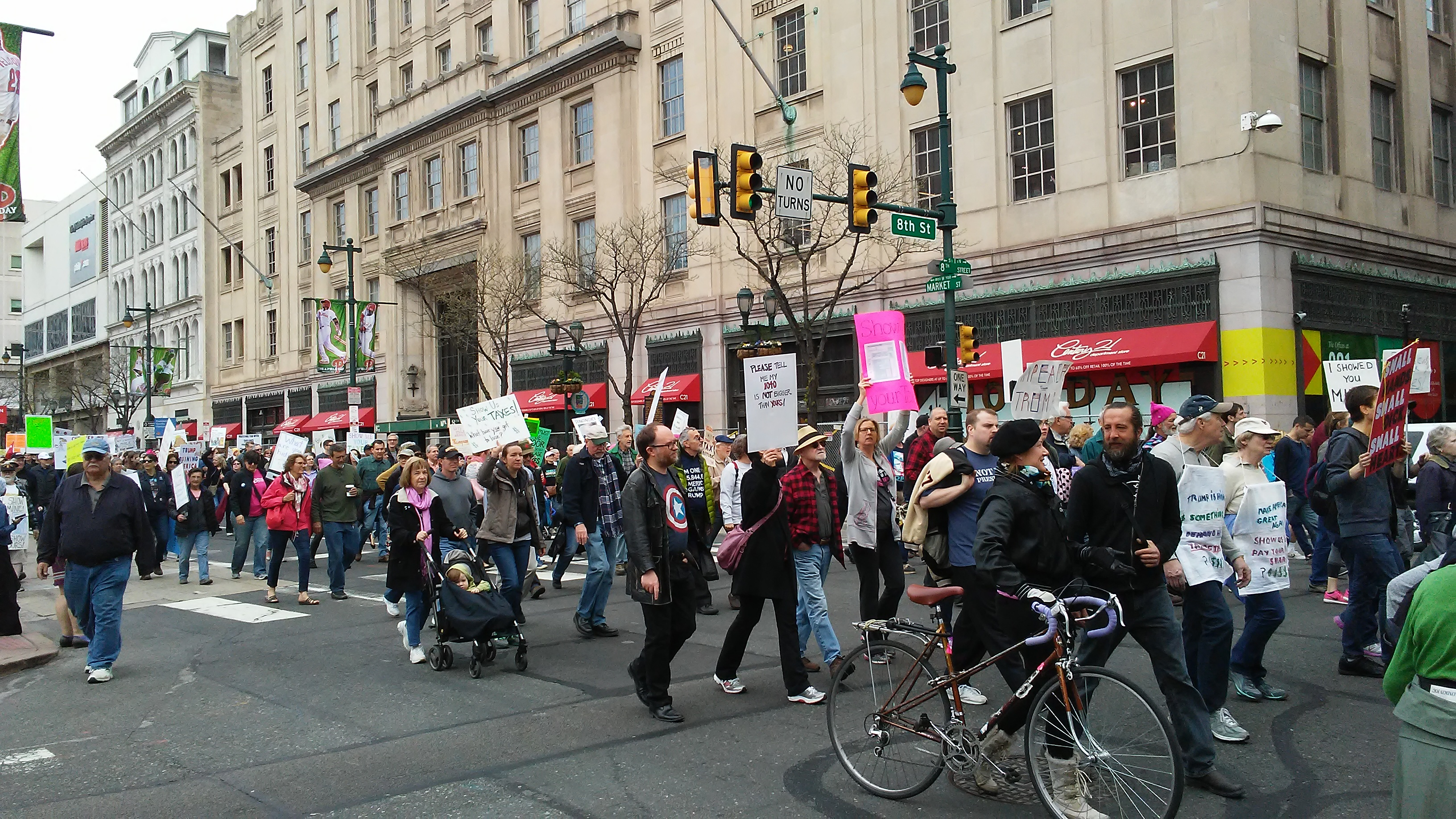 Protests all over the United States were held on April 15 to urge President Trump to release his taxes.